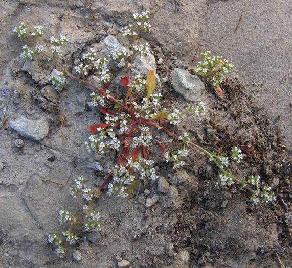 Chorizanthe parryi var. fernandina In the Simi Hills at the Upper Las Virgenes Canyon Open Space Preserve (Ahmanson Ranch), of the Santa Monica Mountains National Recreation Area Park located along western boundary of West Hills and the western San Fernando Valley, Southern California.